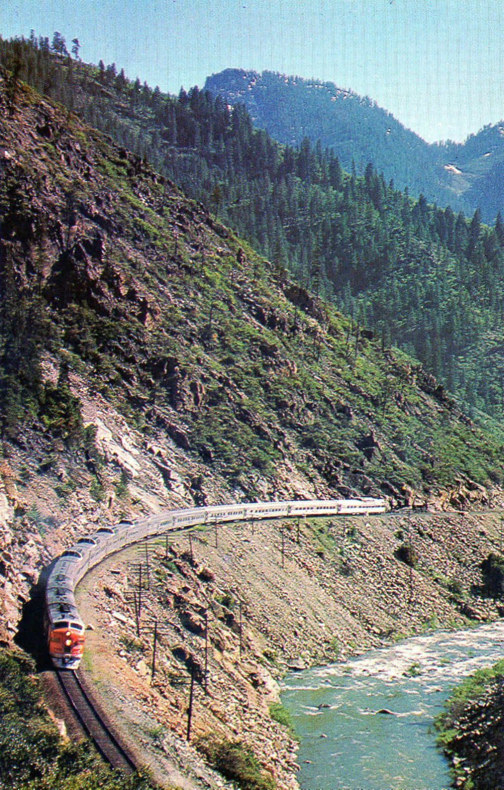 Postcard photo of the Caliornia Zephyr drawn by Western Pacific locomotives through the Feather River Canyon.